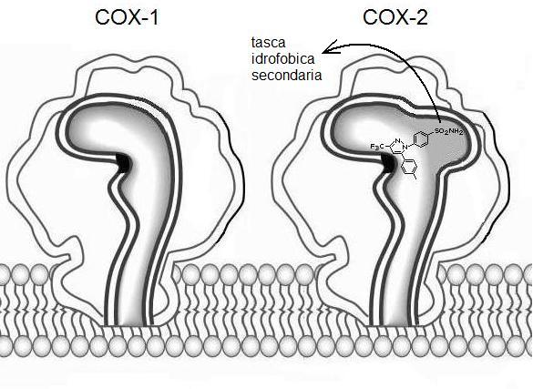 cox hydrophobic channel